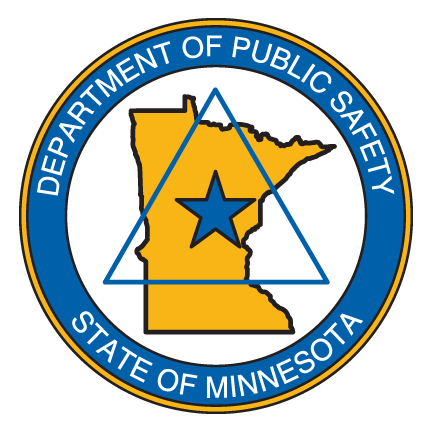 Logo for the Minnesota Department of Public Safety.